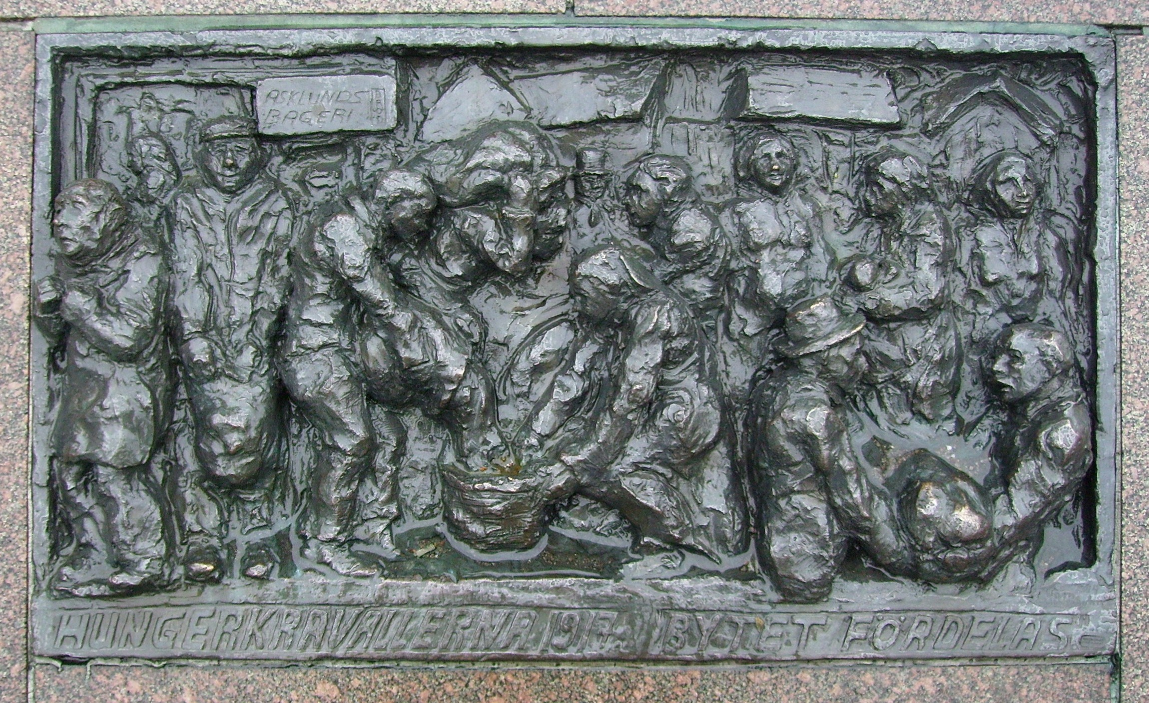 Picture of a detail on a statue at Järntorget in Göteborg figuring a historical event, Riots 1917 in Gothenburg